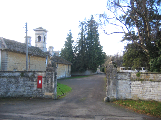 Walcot Hall, near Barnack, Peterborough. Entrance to the Hall and grounds; built in 1678, the Grade I listed Hall is attributed to John Webb.